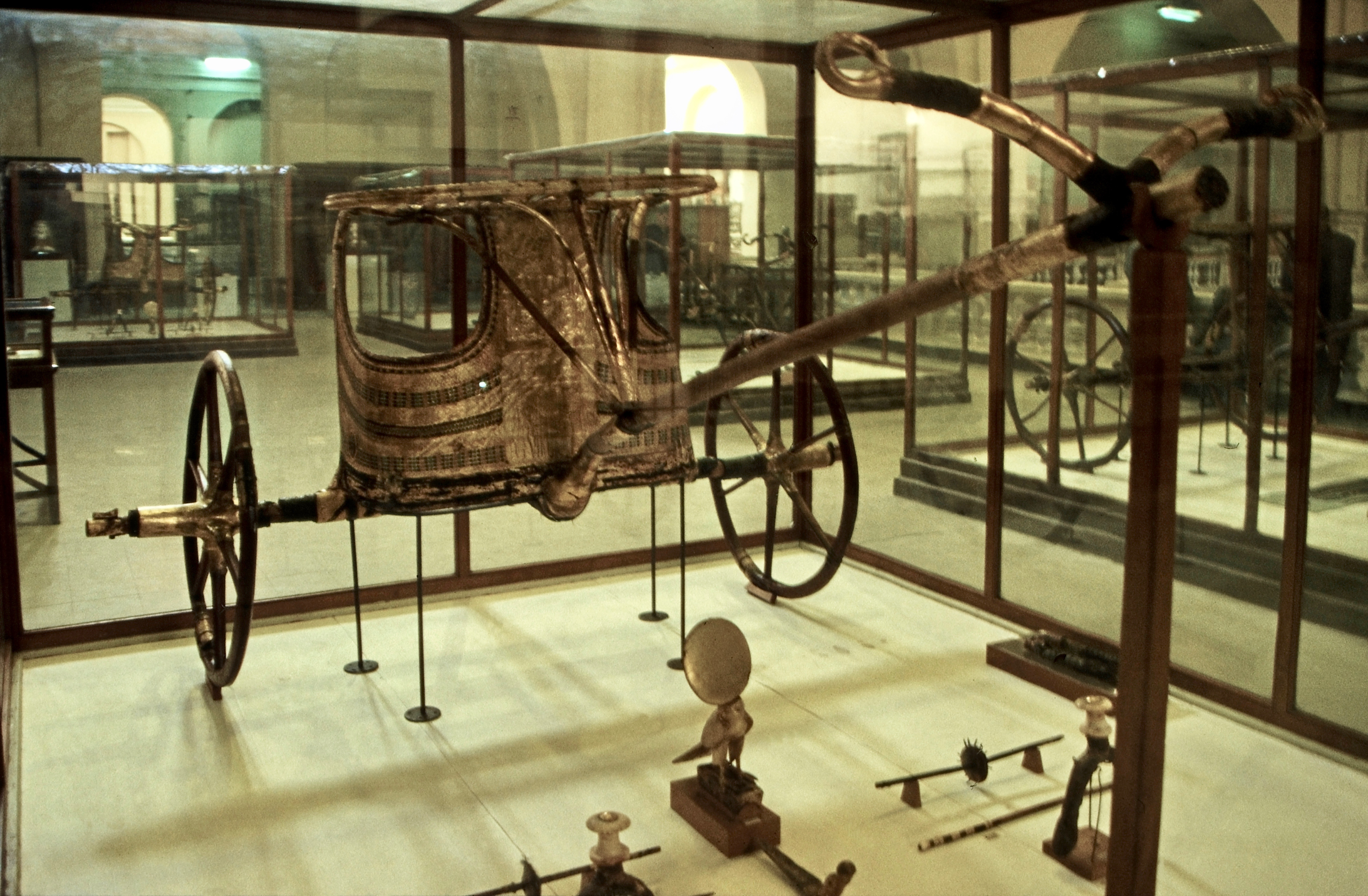 One of the chariots preserved as a grave good from the tomb of Tutankhamun (KV 62, Valley of the Kings) in the Egyptian Museum Cairo.